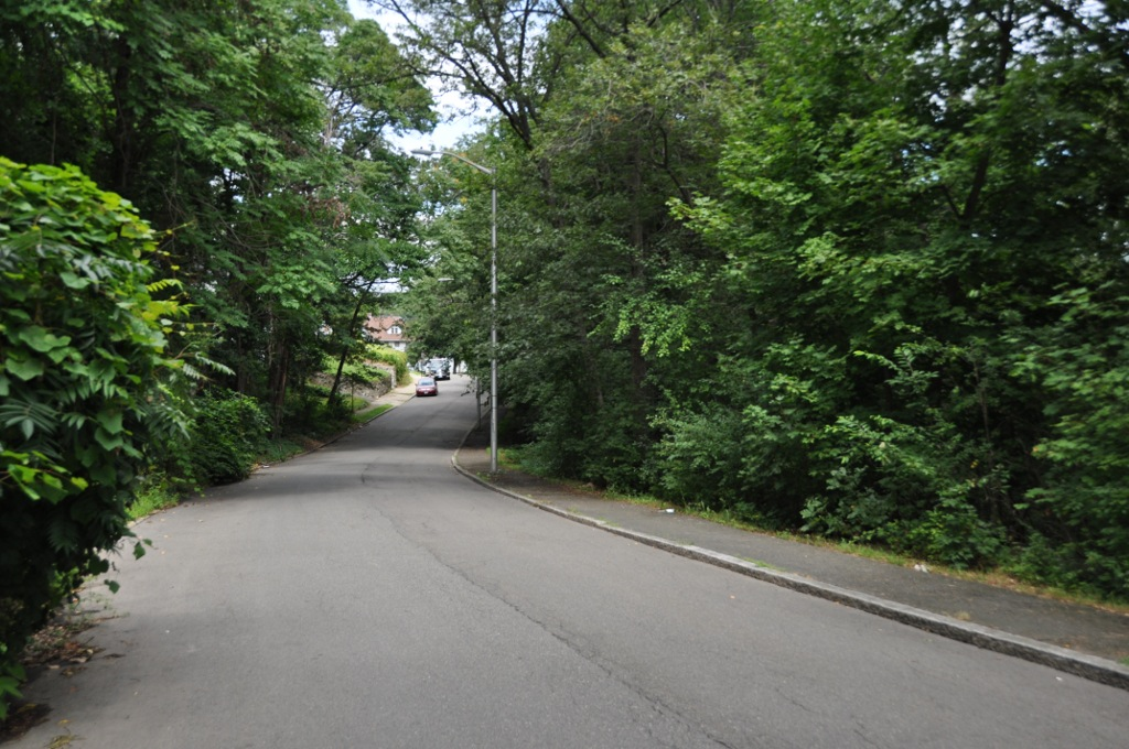 West Border Road in Malden, Massachusetts, part of the historic Fellsmere Park Parkways.